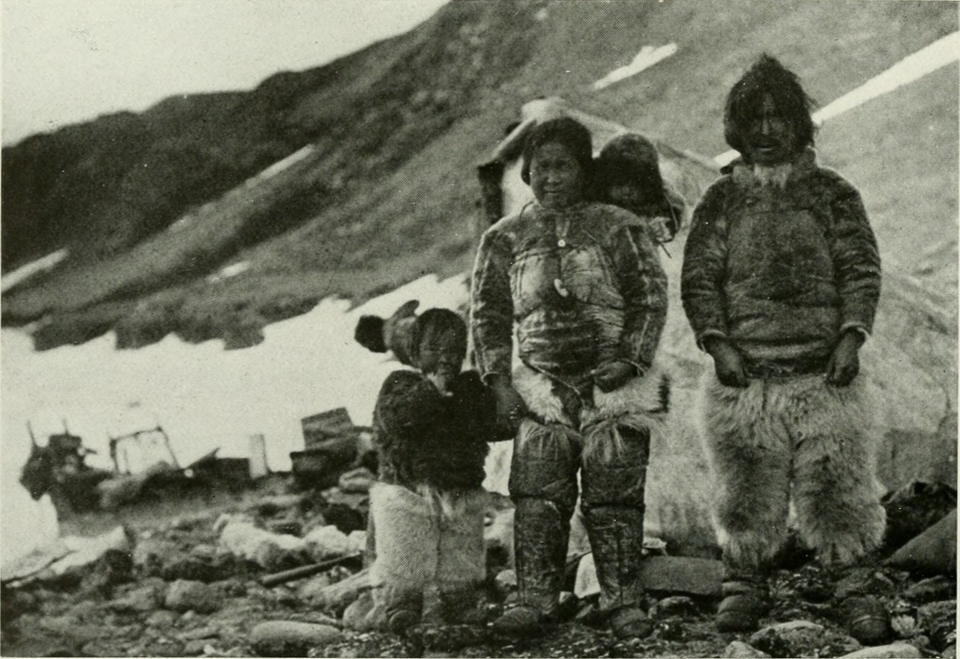 Title: The American Museum journal Year: c1900-(1918) (c190s) Authors: American Museum of Natural History Subjects: Natural history Publisher: New York : American Museum of Natural History Text Appearing Before Image: Tah-tah-rahq (three years old, 1917) with one of the sleds which the Crocker Land Expedition took north to the Eskimo children. An Eskimo boy does not often have a little sledge to play with be- cause there is seldom more than enough wood to make the family's big sledge — nevertheless he some- times has a great frolic sliding down hard snow slopes without a sled. Life for the Eskimo boy is more serious than for the American boy. and he is quieter. He must become self-supporting early and so must learn very much from his father: to make snow and stone igloos; to drive the dogs and make and mend the harness and the sledge; to use the rifle; to skin the game; to make harpoons, floats, kayaks; and finally when he is about fourteen, to hunt the seal, the walrus, and the polar bear Text Appearing After Image: I'hoto;/rai/li by E. O. Hovey Oo-quee-ahq. with his wife. Ah-tee-tah. and their two children, beside their toopik at Ip-soo-i-^ook, head of Parker Snow Bay, 1916. Oo-quee-ahq accompanied Peary to the Xorth Pole 370